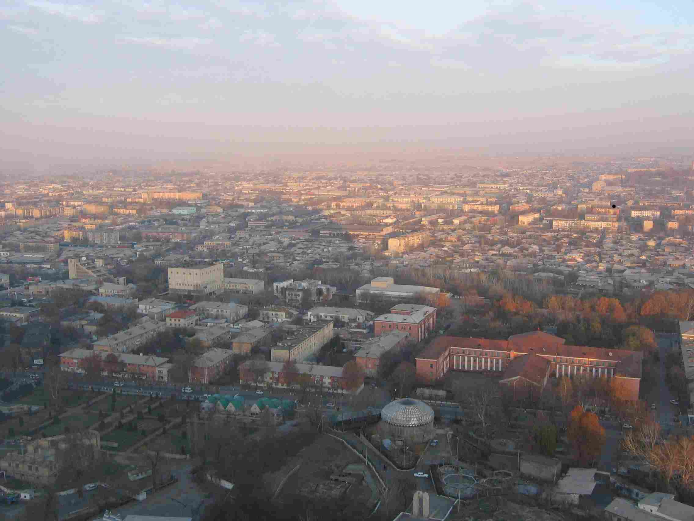 Osh, Kyrgyzstan as seen from Suleymanka mountain